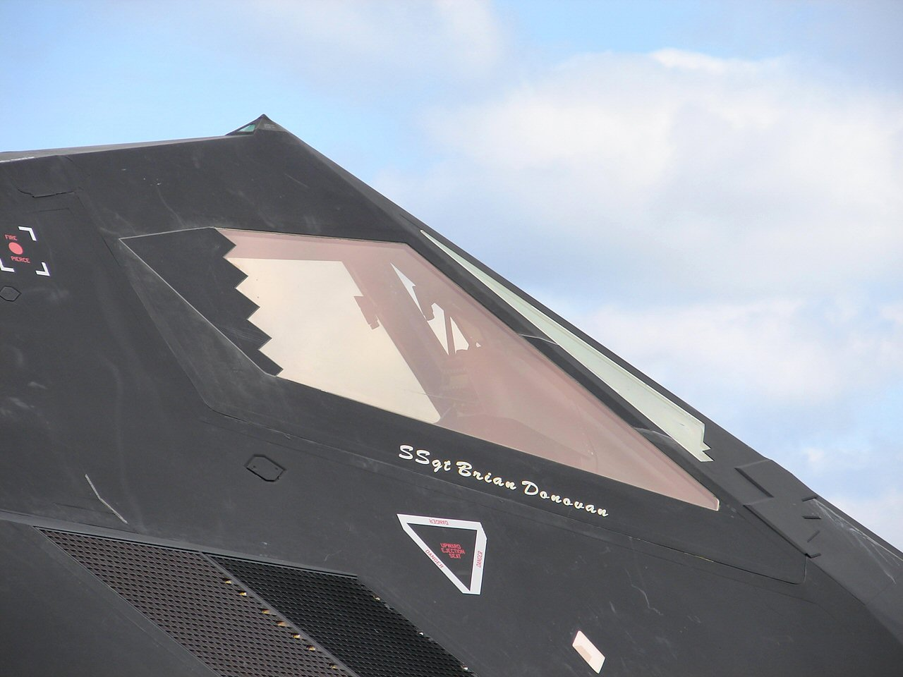 The front office of the F-117